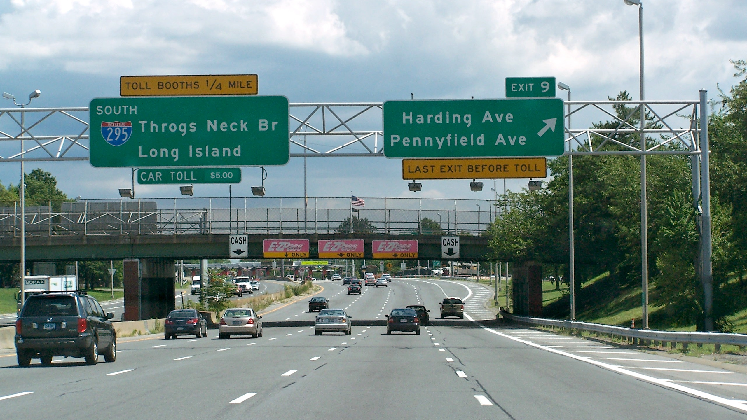 Southbound I-295 before the outrageous $5 toll for the Throgs Neck Bridge.